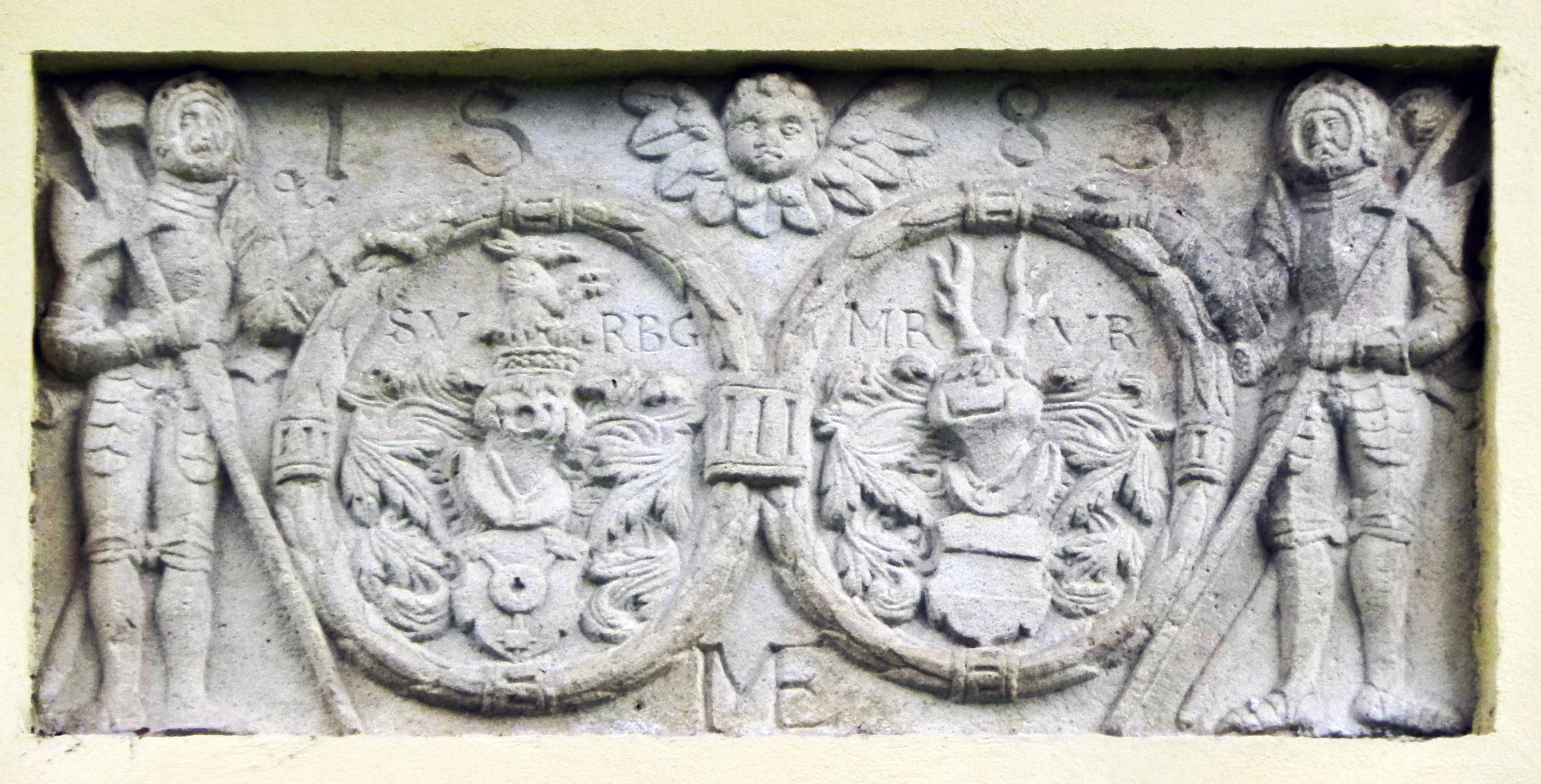 Palace in Trzebieszowice, coats of arms of the von Reichenbach family